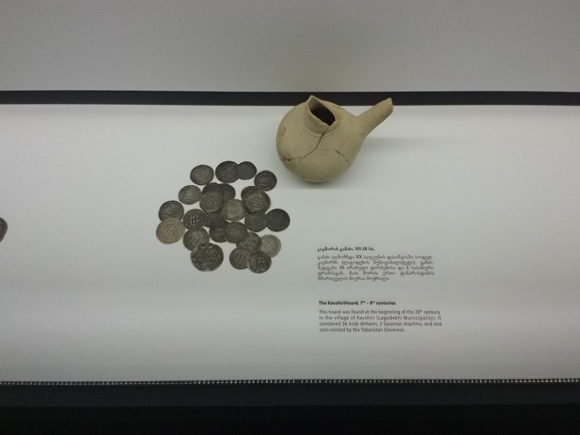 The Kavshiri Hoard